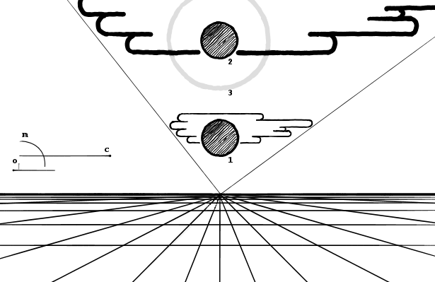 The Moon illusion - illustration of the apparent distance hypothesis (i.e. a cloud of a certain size at a certain height in the atmosphere subtends a smaller angle if it's lower towards the horizon than if it's more nearly overhead; since the moon subtends basically the same angle whether it's overhead or near the horizon, therefore it's perceived as larger near the horizon. 1: Moon near to horizon 2: Moon higher in sky (appears smaller than 1, actually has the same size) 3: Size that moon should have according to perspective rules. o: Observer c: Cloud's path m: Moon's path